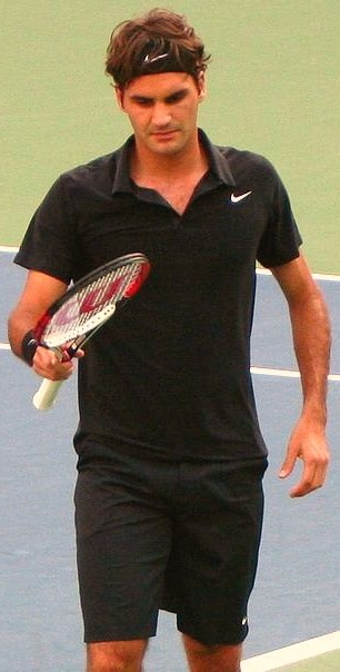 crop of Roger Federer wins the 2009 Wimbledon Cropped Pic to take out negative space!